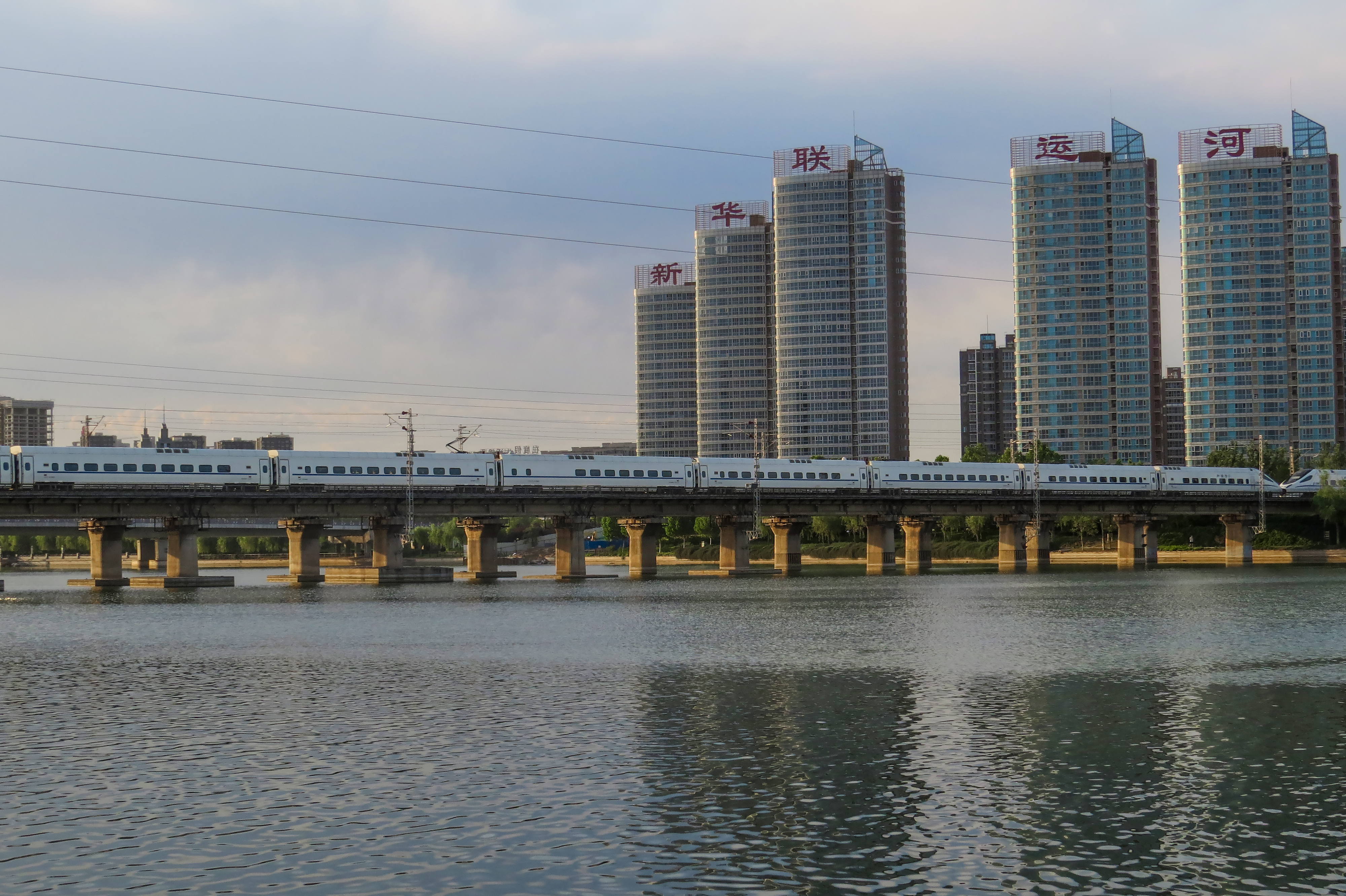 D1 to Shenyang. Interesting combination of 5160 and 5150.